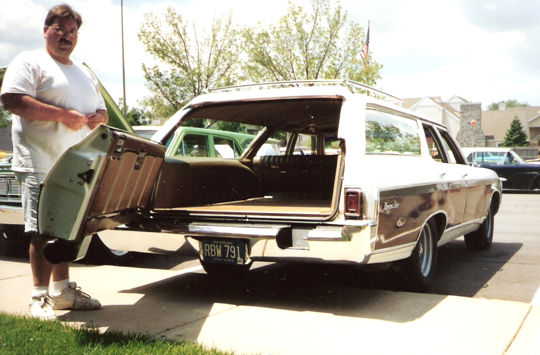 1969 Chevrolet Kingswood Estate station wagon I photographed in Dearborn, Michigan in June 2001.